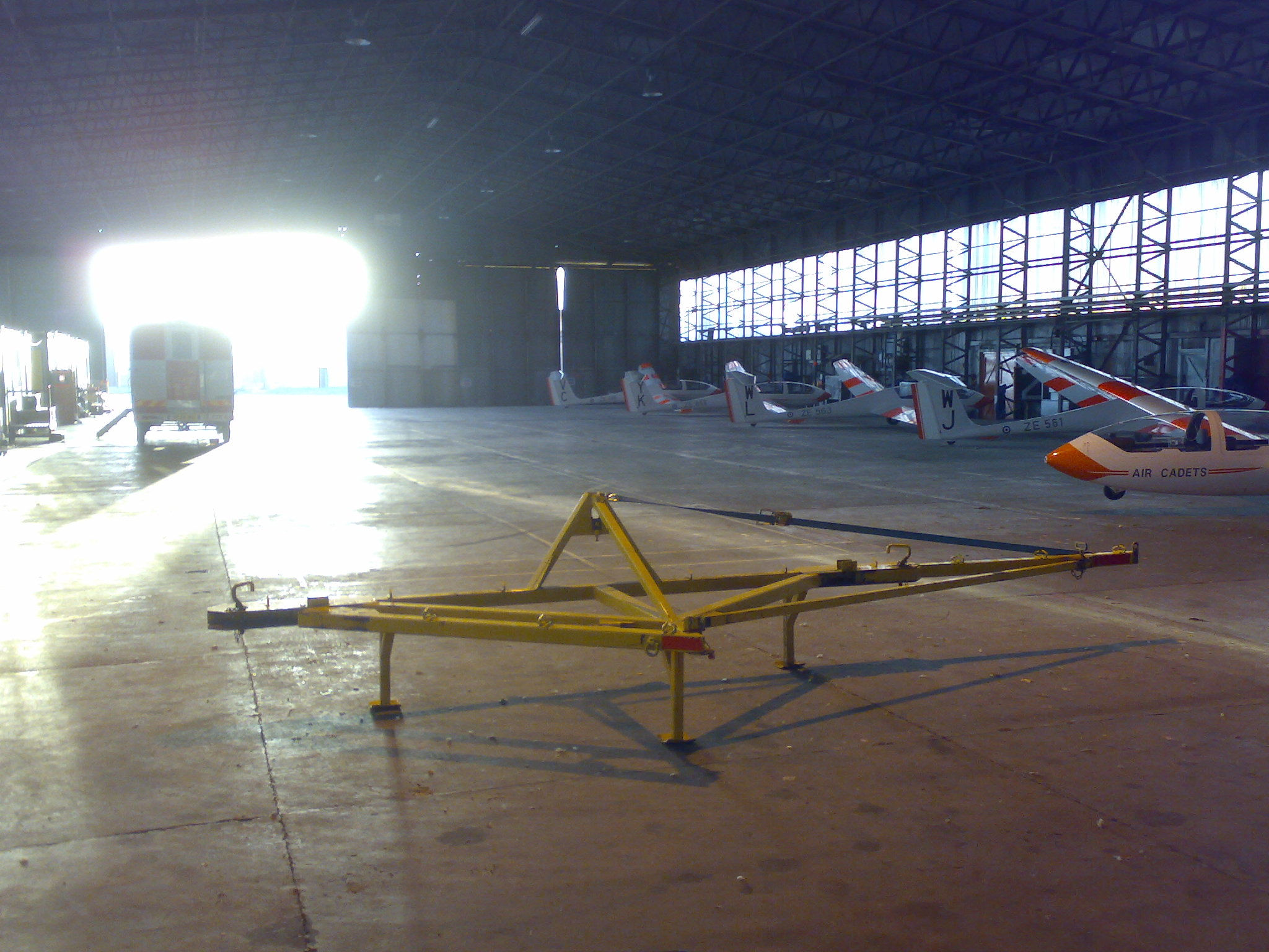 Building 161 at MDPGA Wethersfield on the 13th May 2007